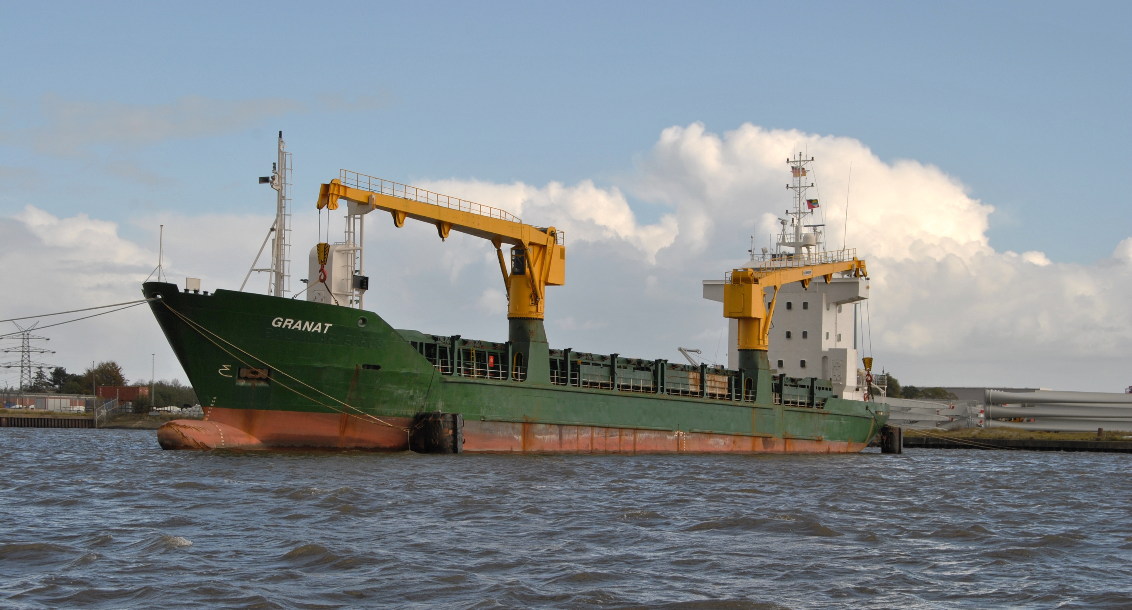 The cargo ship Granat of Antigua and Barbuda in the habour of Emden (East Frisia, Germany) call sign: V2EW7 IMO: 8812942 MMSI: 305583000